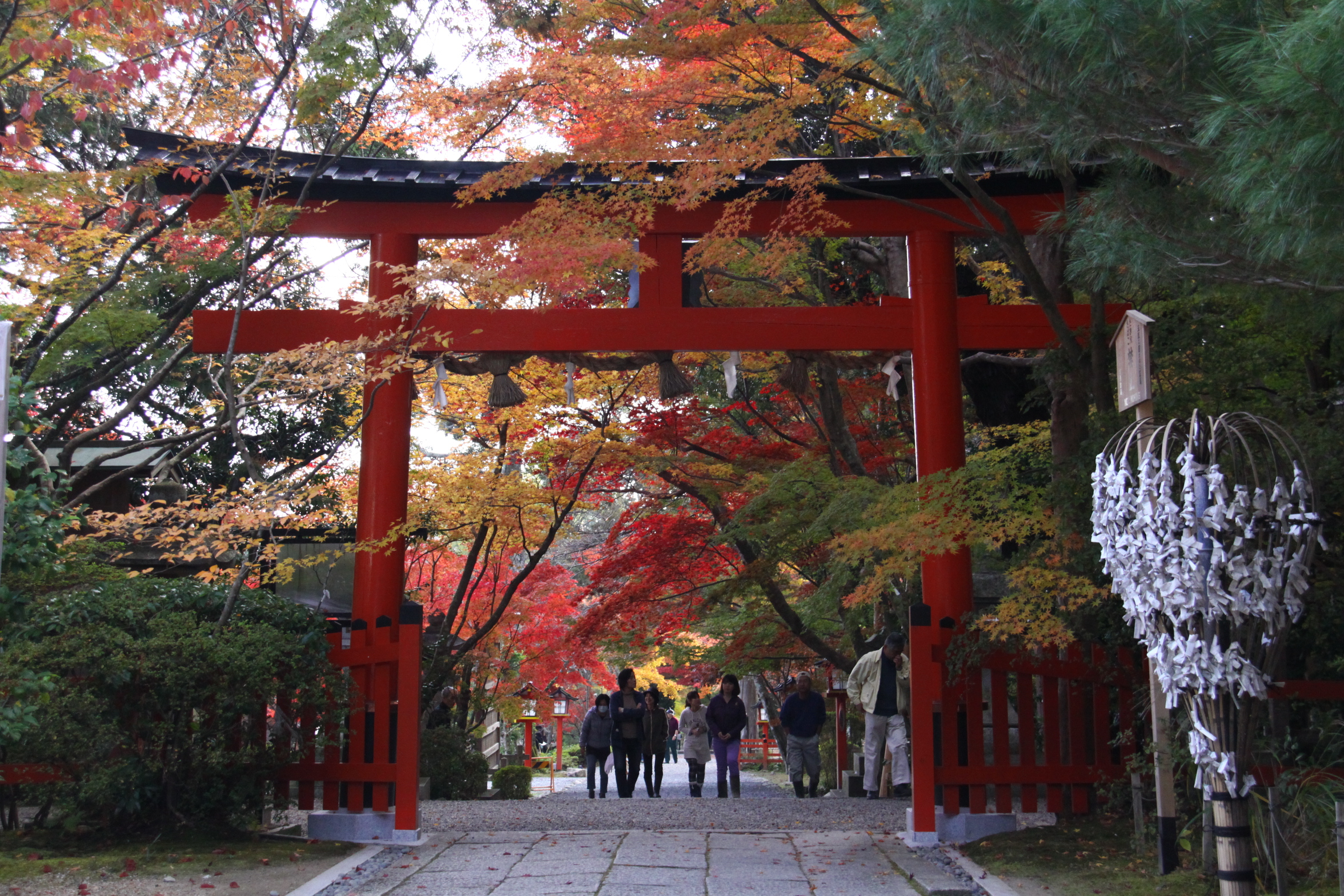 Oharano jinja 3rd Gate